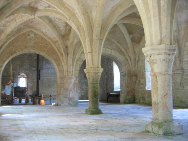 Abbaye de Fontenay, France : forge.